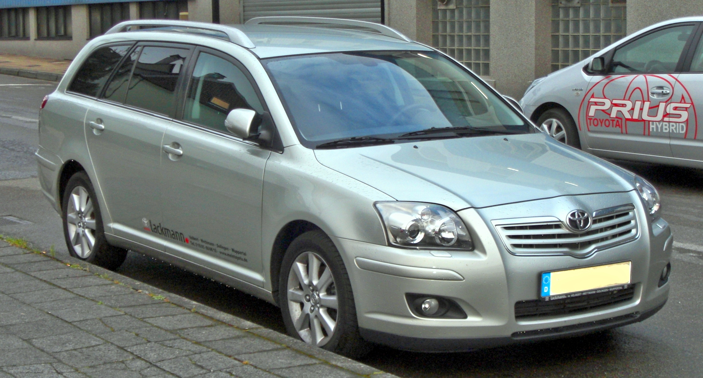 Toyota Avensis II